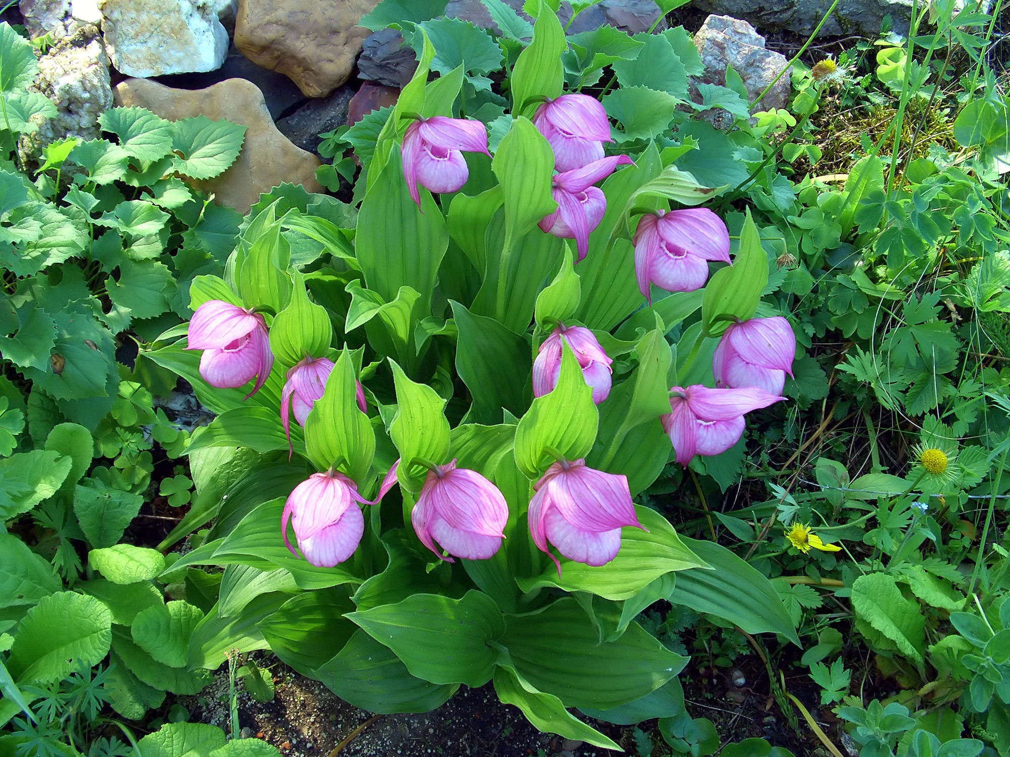 Cypripedium macranthos